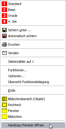 Screenshot of the system tray menu of the well known Screenshot- Software Hardcopy